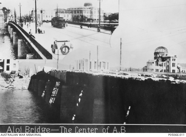 Hiroshima devastated following the dropping of the atomic bomb, (code named Little Boy). Before and after shots of the Aioi Bridge, which was the centre of the atomic blast.